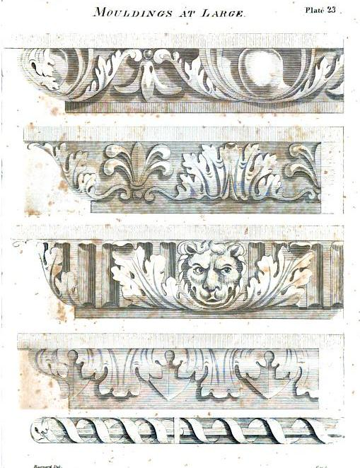 Illustration on moldings from "The American Builder's Companion," written by American architect Asher Benjamin.